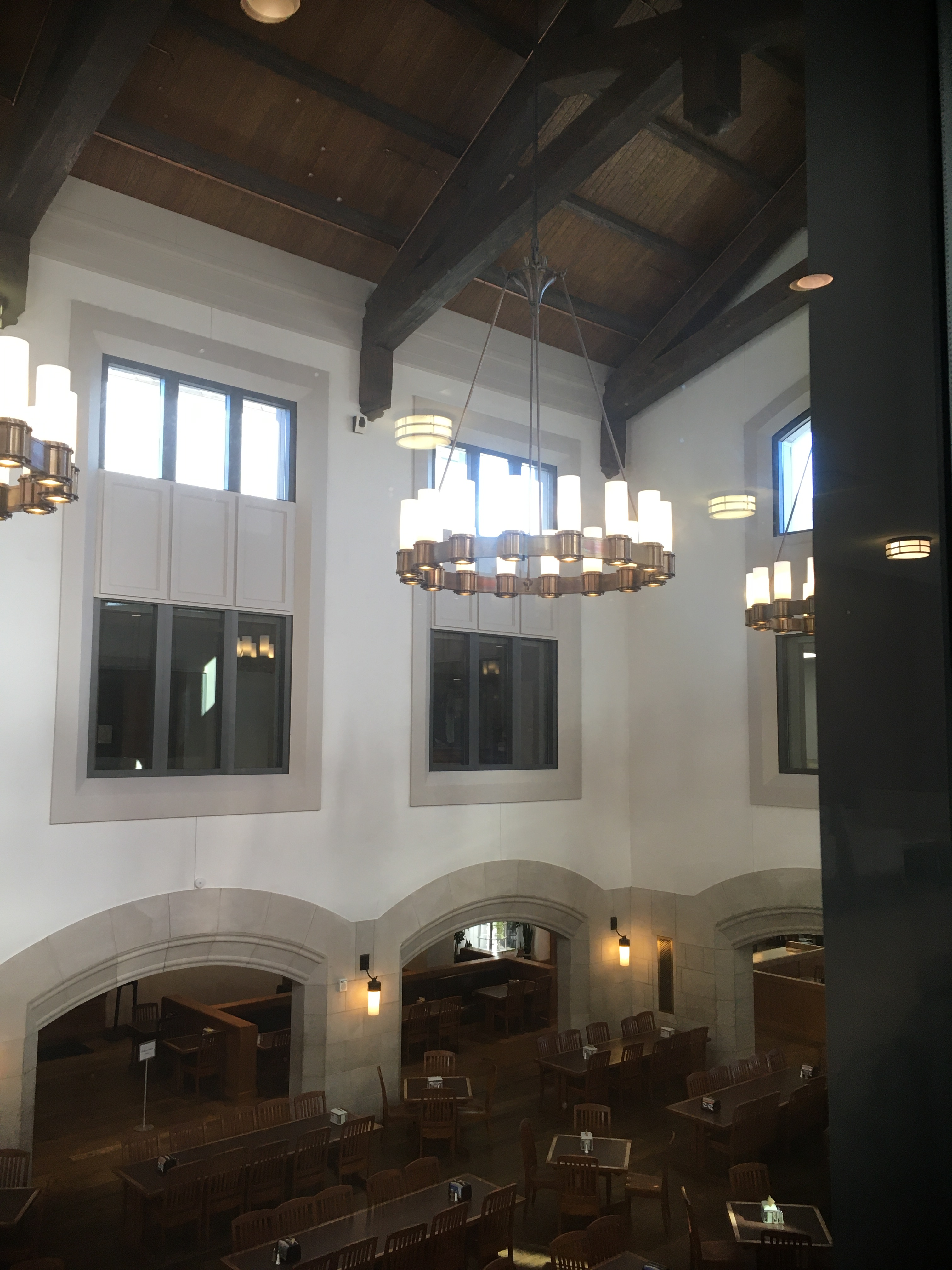 Marist College Main Dining Hall